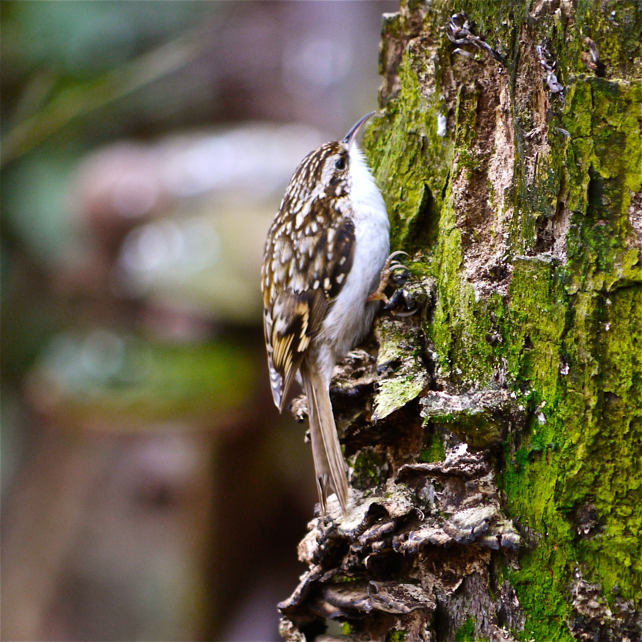 Certhia familiaris, Yorkshire, England.